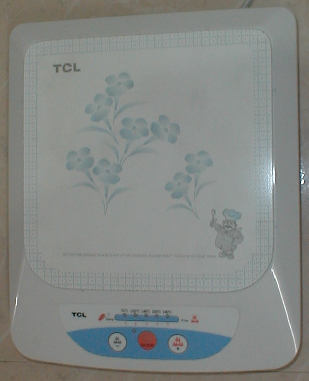 I took this photograph of an Induction Stove which I have in my Kitchen.